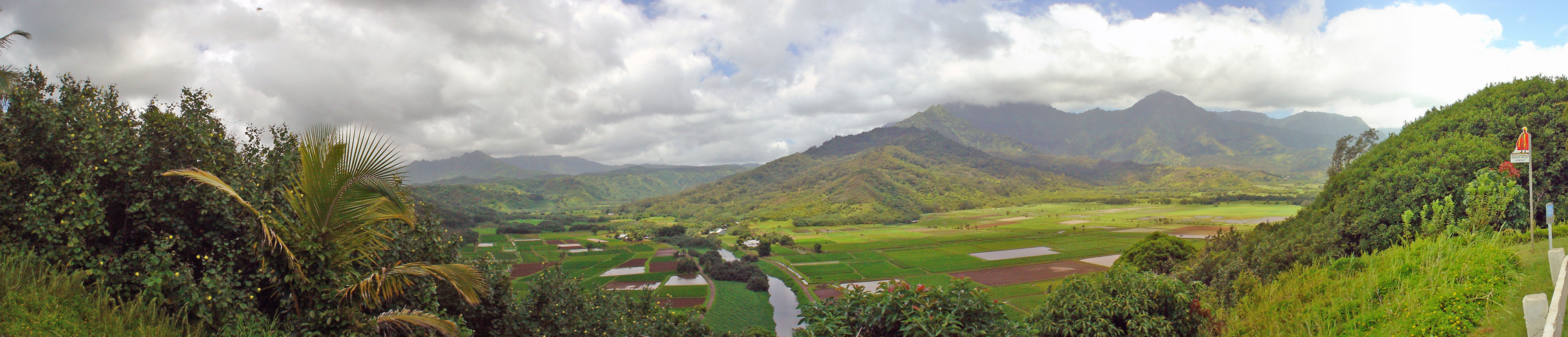 The Hanalei river and valley on the north side of Kauai. Taken by Kiel Olff in July of 2005.